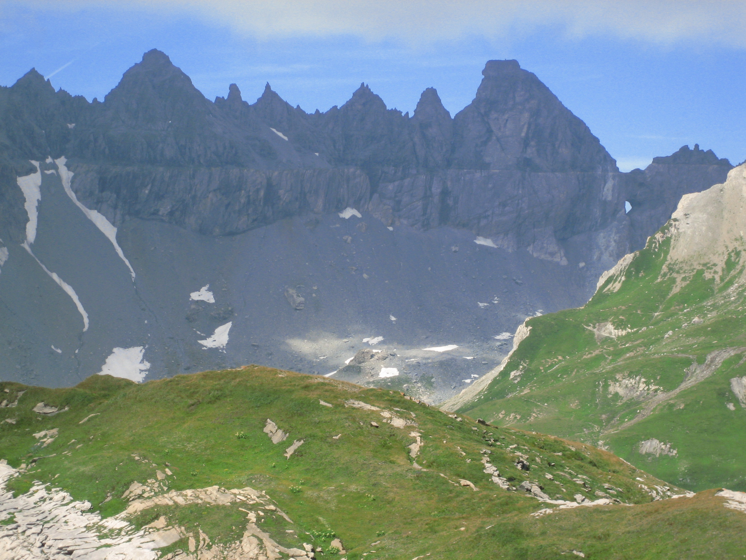 A picture of the Tschingelhörner in Switzerland. Taken from near Segneshütte in Graubünden.